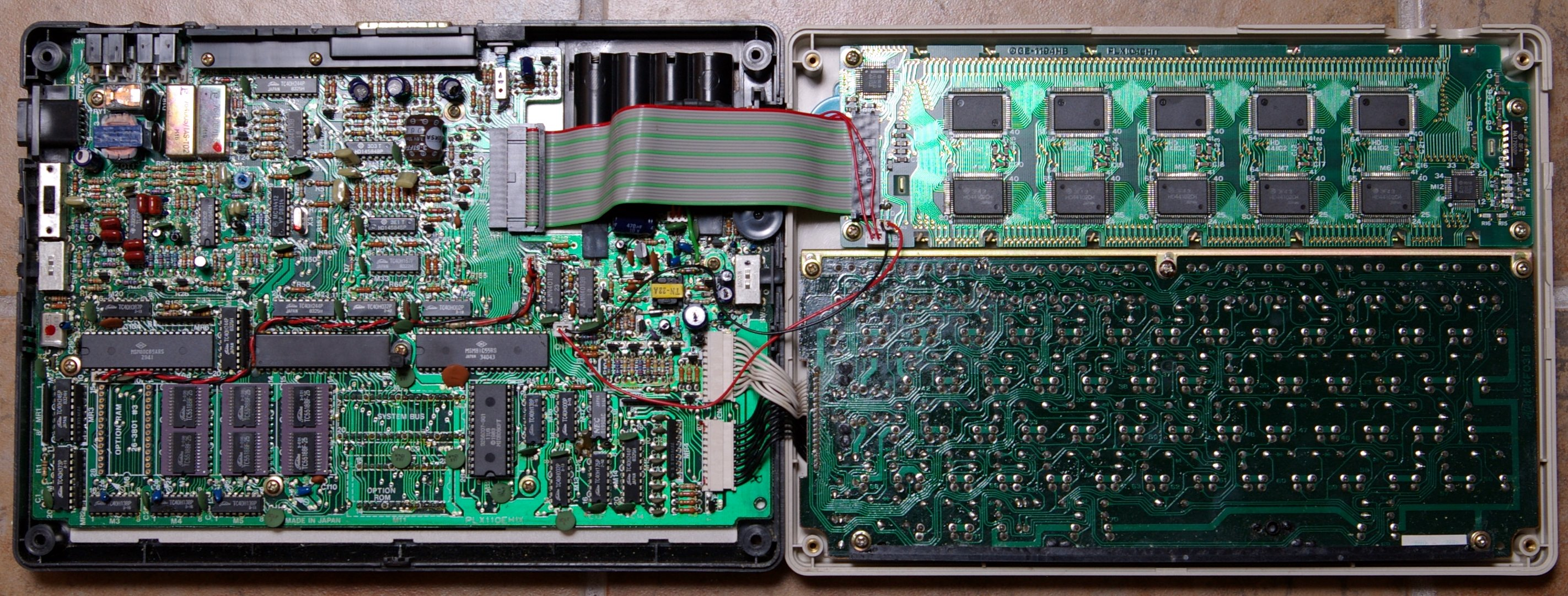 A TRS-80 Model 100 that has been opened up. The left half is the back. The keyboard is on the lower-right, the screen above that.